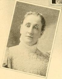 Amanda Borneman